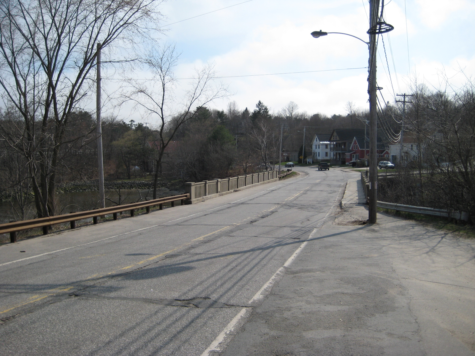 Route 88, Yarmouth, Maine